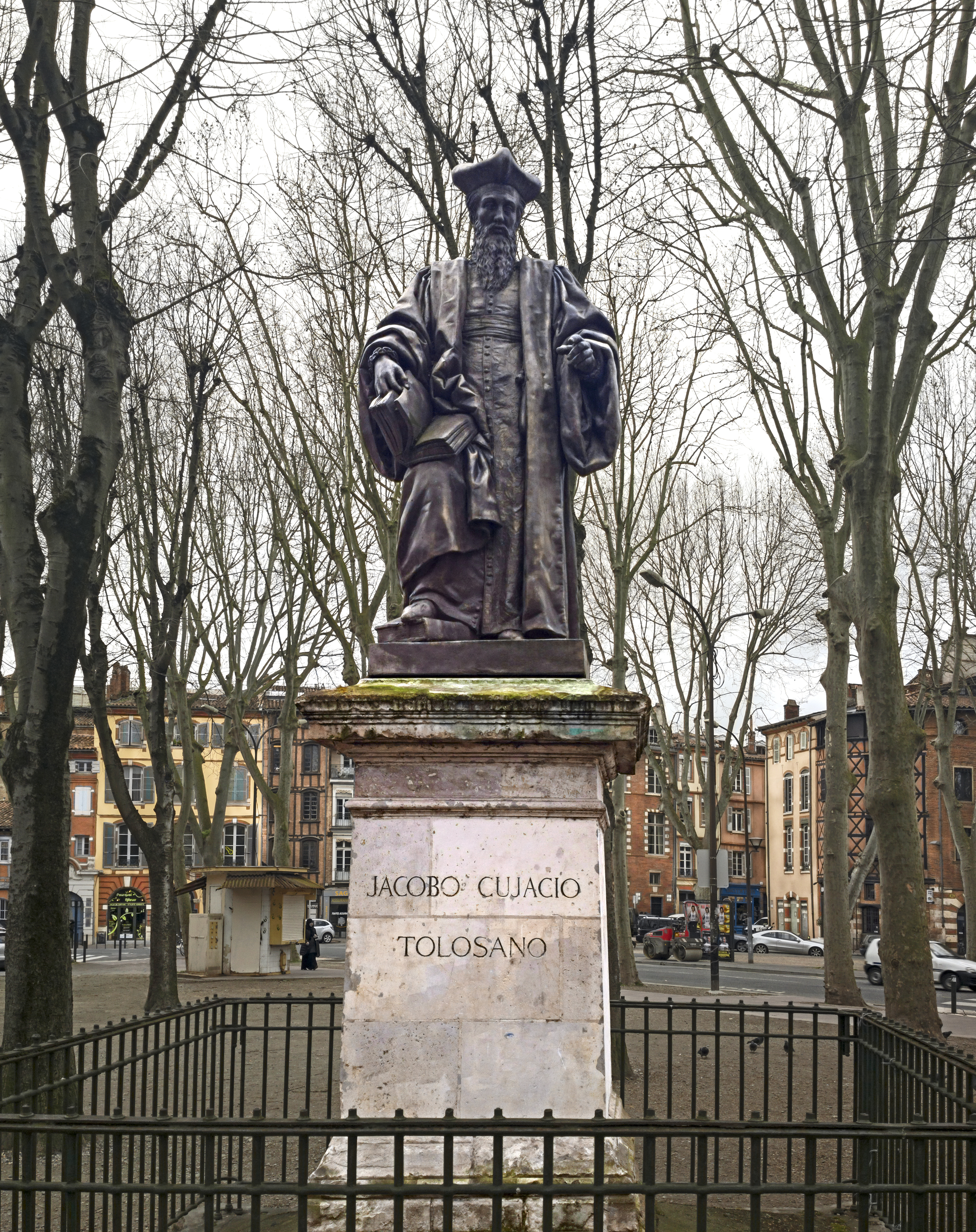 Statue of Jacques Cujas by Achille Valois 1837 - Place du Salin - Toulouse